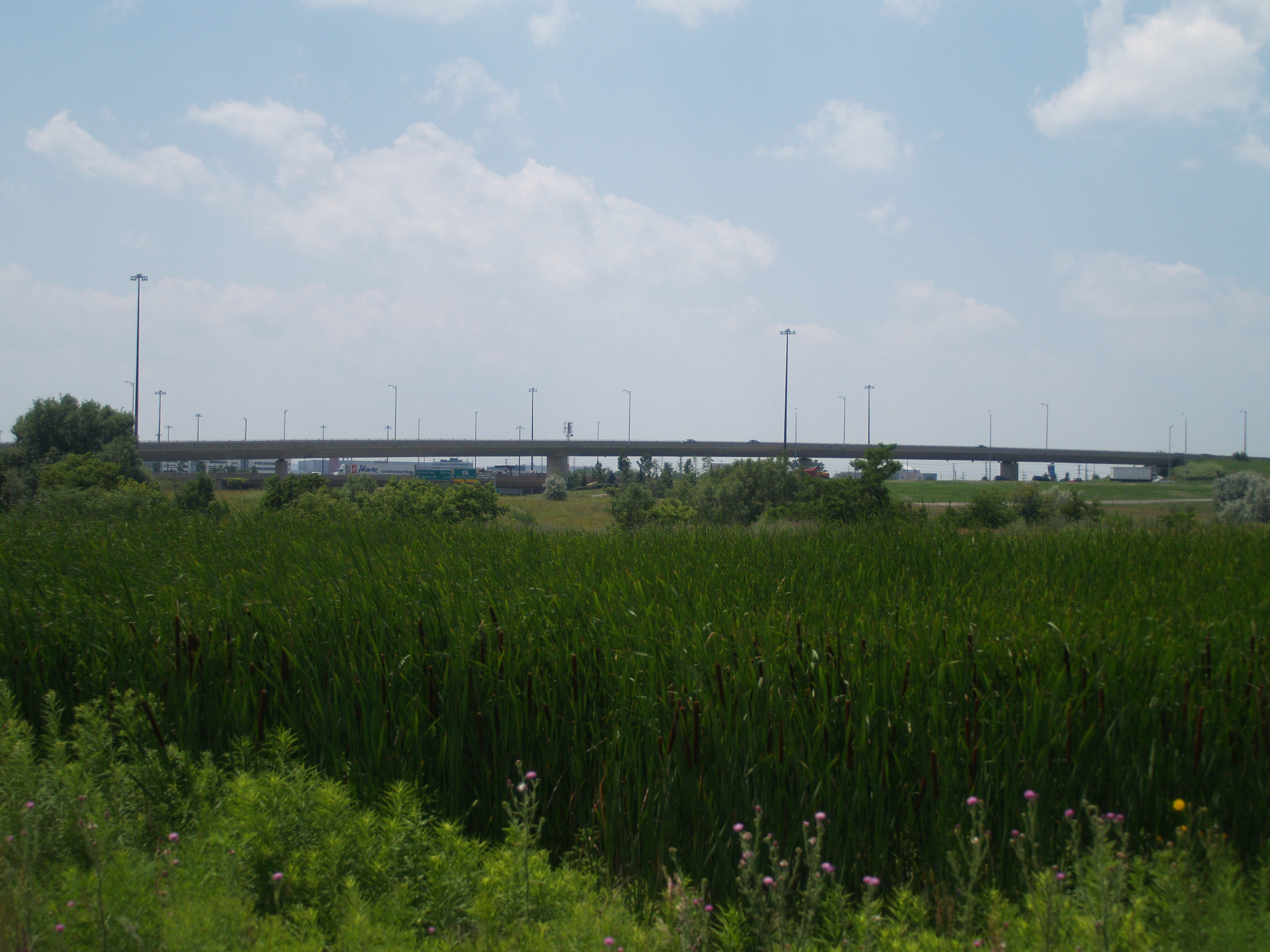 The large flyover that connects southbound Highway 427 into eastbound Highway 409 in the west end of Toronto near Pearson Airport